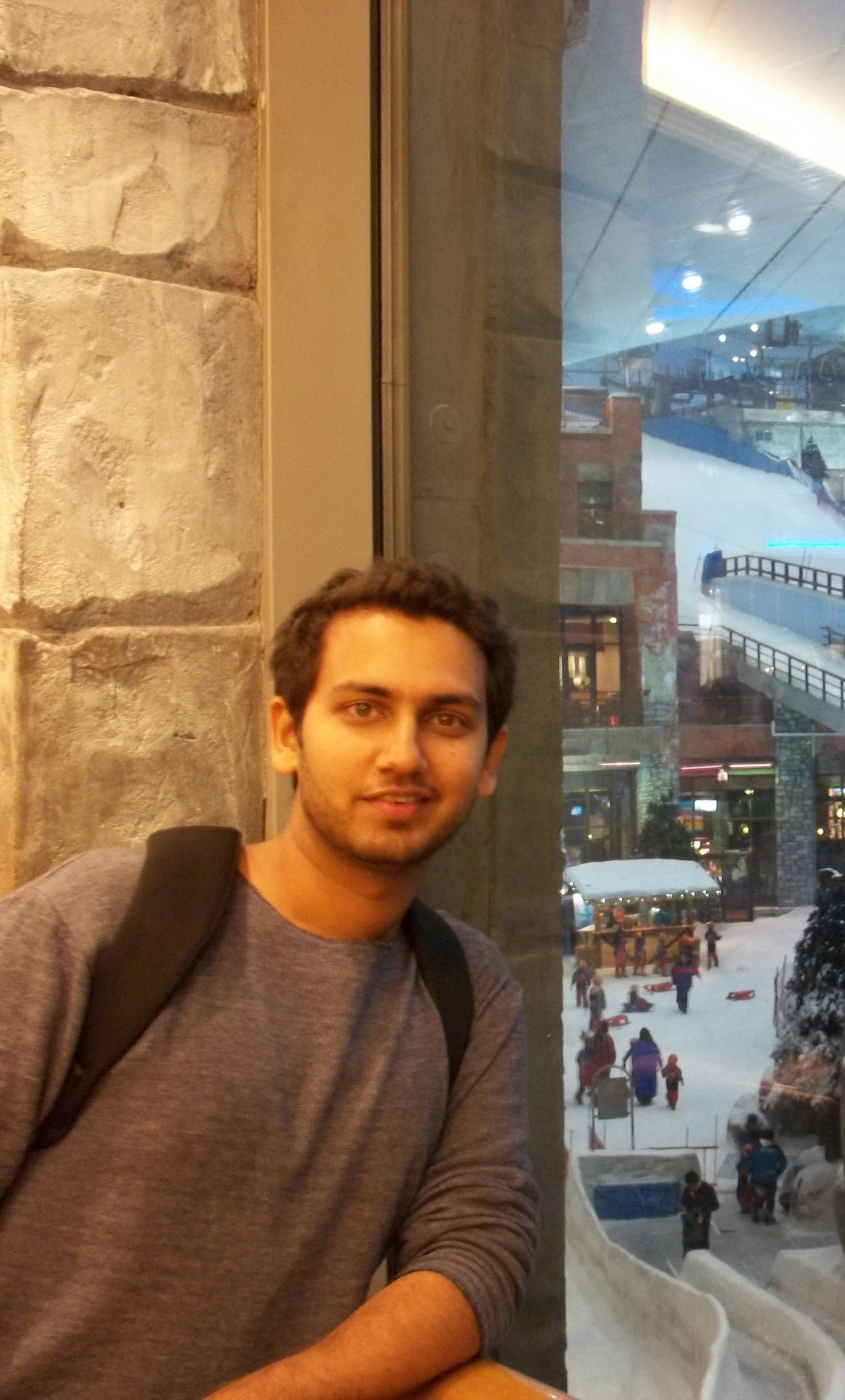 This is a photo of Indian voice actor Nachiket Dighe Dated December 2011